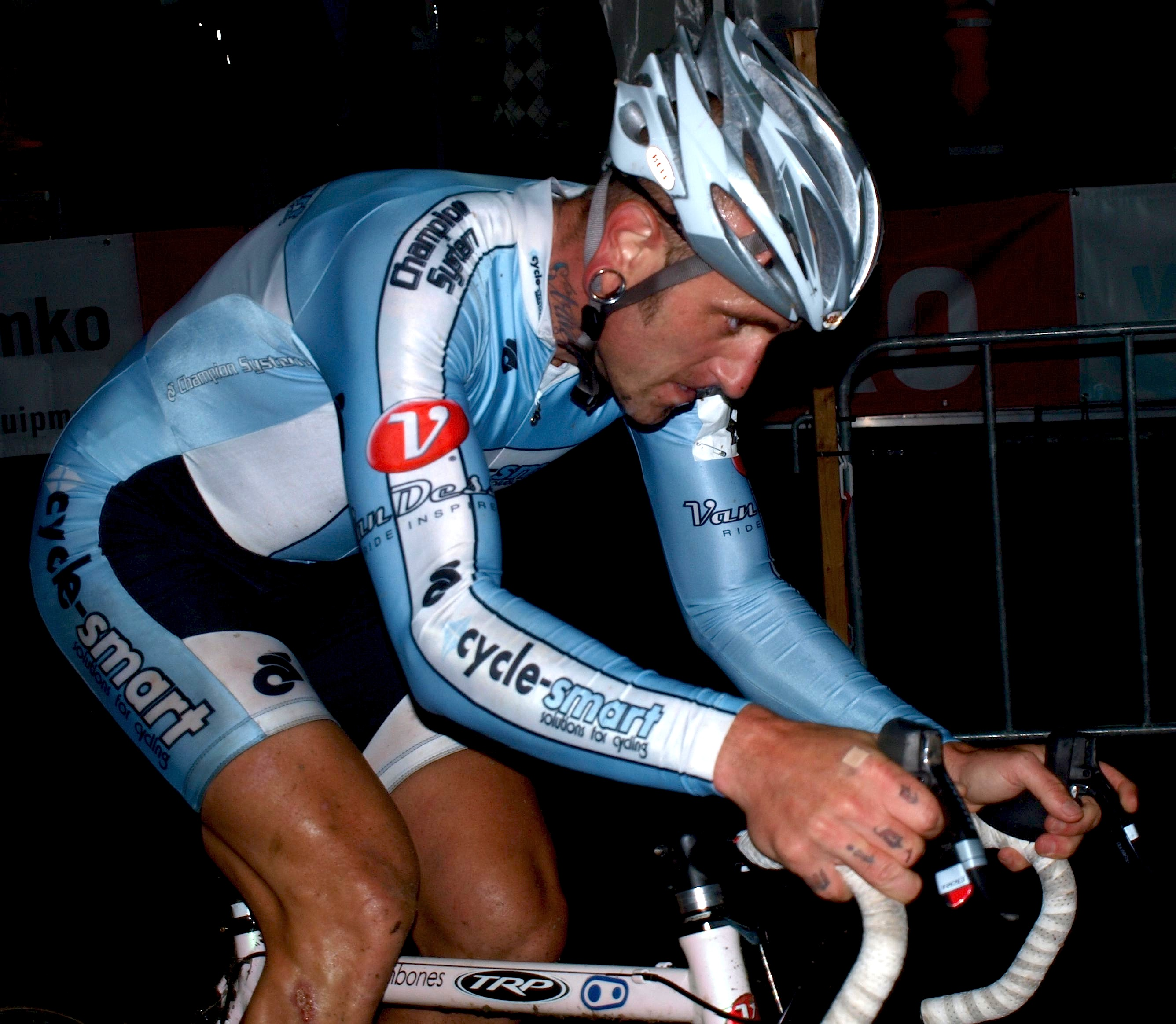 Adam Myerson (USA) in the "Nacht van Woerden" cyclocross race (Men Elite UCI.C2) on 21 October 2008 in Woerden, Netherlands. Finish position: 25.